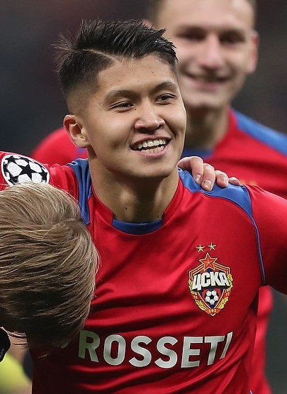 Ilzat Akhmetov